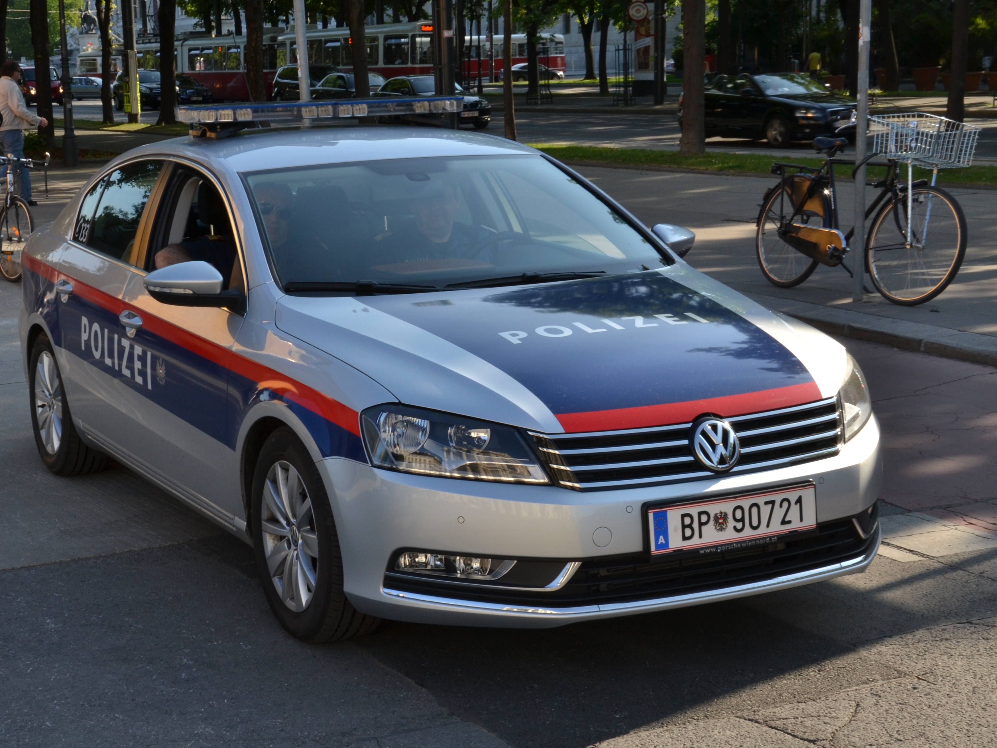 VW Passat police car of the austrian Federal Police. Vienna, in front of the Burgtheater.